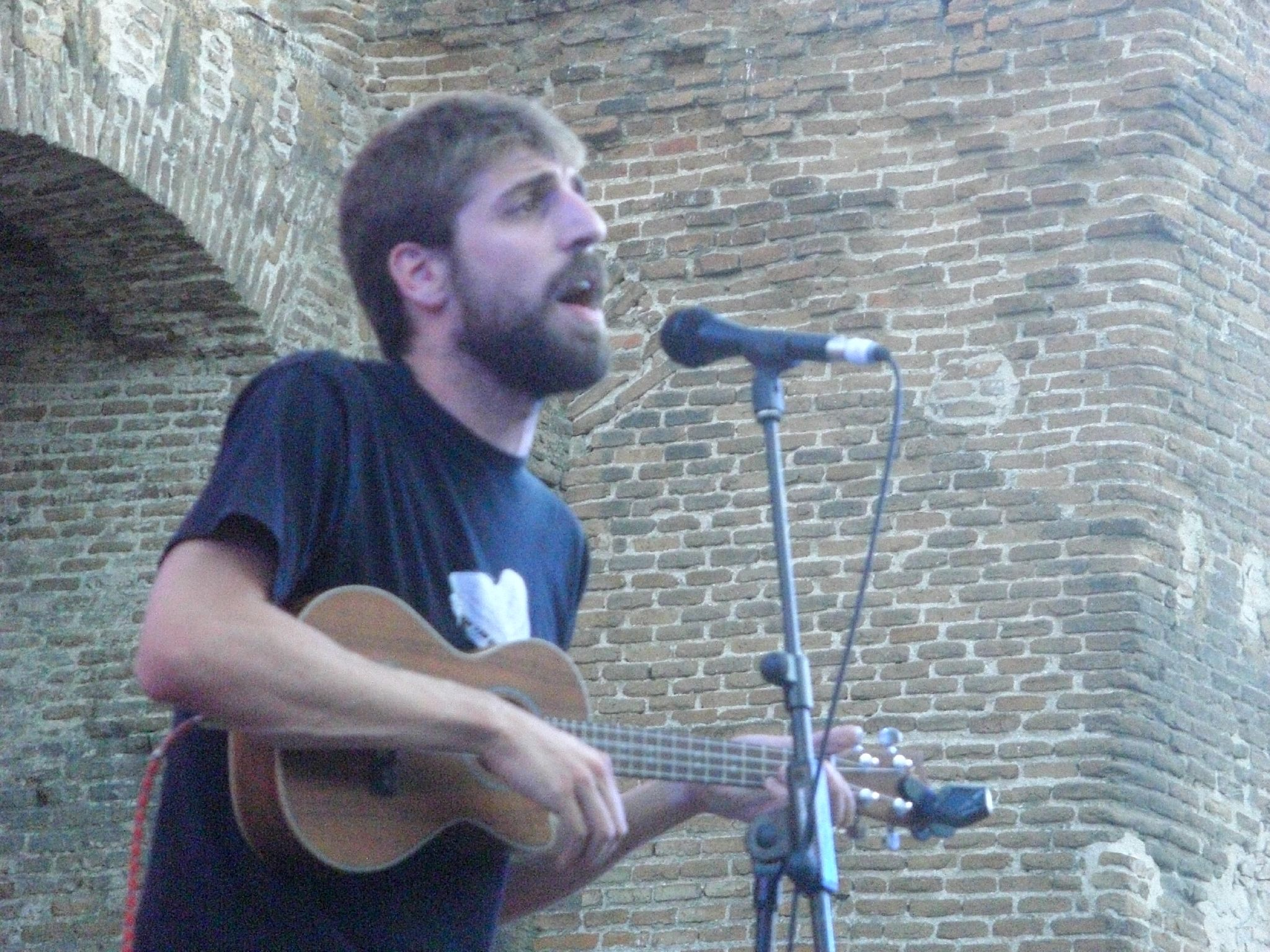 Guillem Guisbert, member of the Catalan band Manel